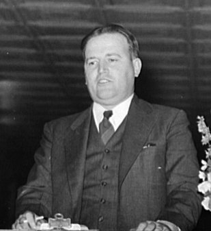 James H. Morrison Library of Congress description: "'Senator' Jim Morrison. Although Jim Morrison was defeated in the recent election, he claims that he would have been elected if the ballots had been properly counted and habitually calls himself 'Senator Morrison.' He is a leader of the strawberry farmers, organizing the first cooperative union of the strawberry growers in Louisiana. He conducts the auction to which these growers consign their berries"